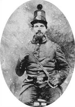 Brigadier Gen. Turner Ashby, Jr., a Confederate cavalry officer who served under Thomas J. "Stonewall" Jackson in the Shenandoah Valley Campaign of 1862 during the American Civil War (1861–1865).